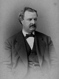 William Ambrose Hulbert Image from Baseball Hall of Fame Reason for public domain: Hulbert lived from 1832-1882.